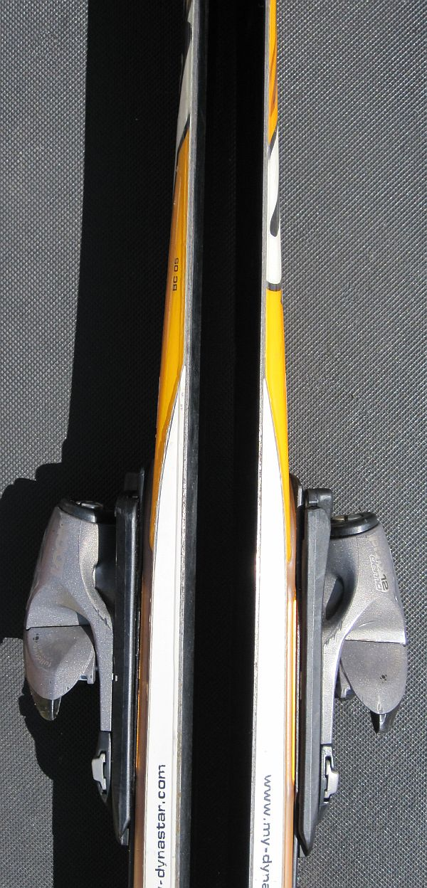 ski design: sidewall laminated and cap combined